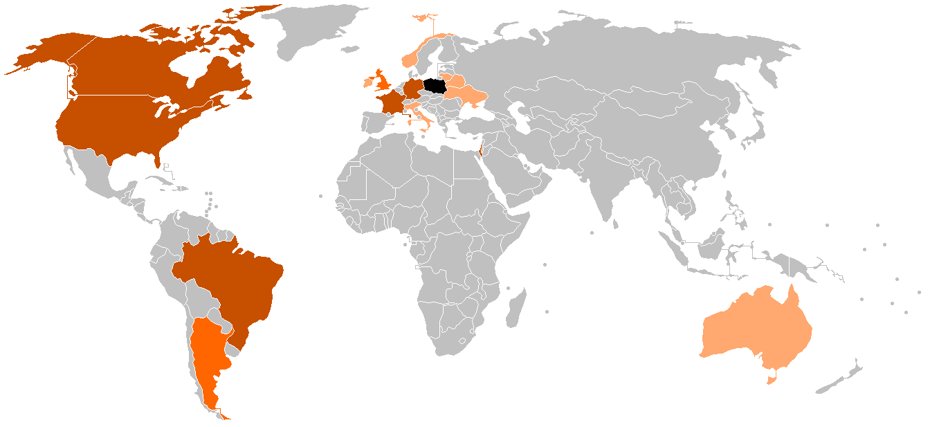 The map depicts countries by number of citizens who reported Polish ancestry (based on sources in the article Poles)